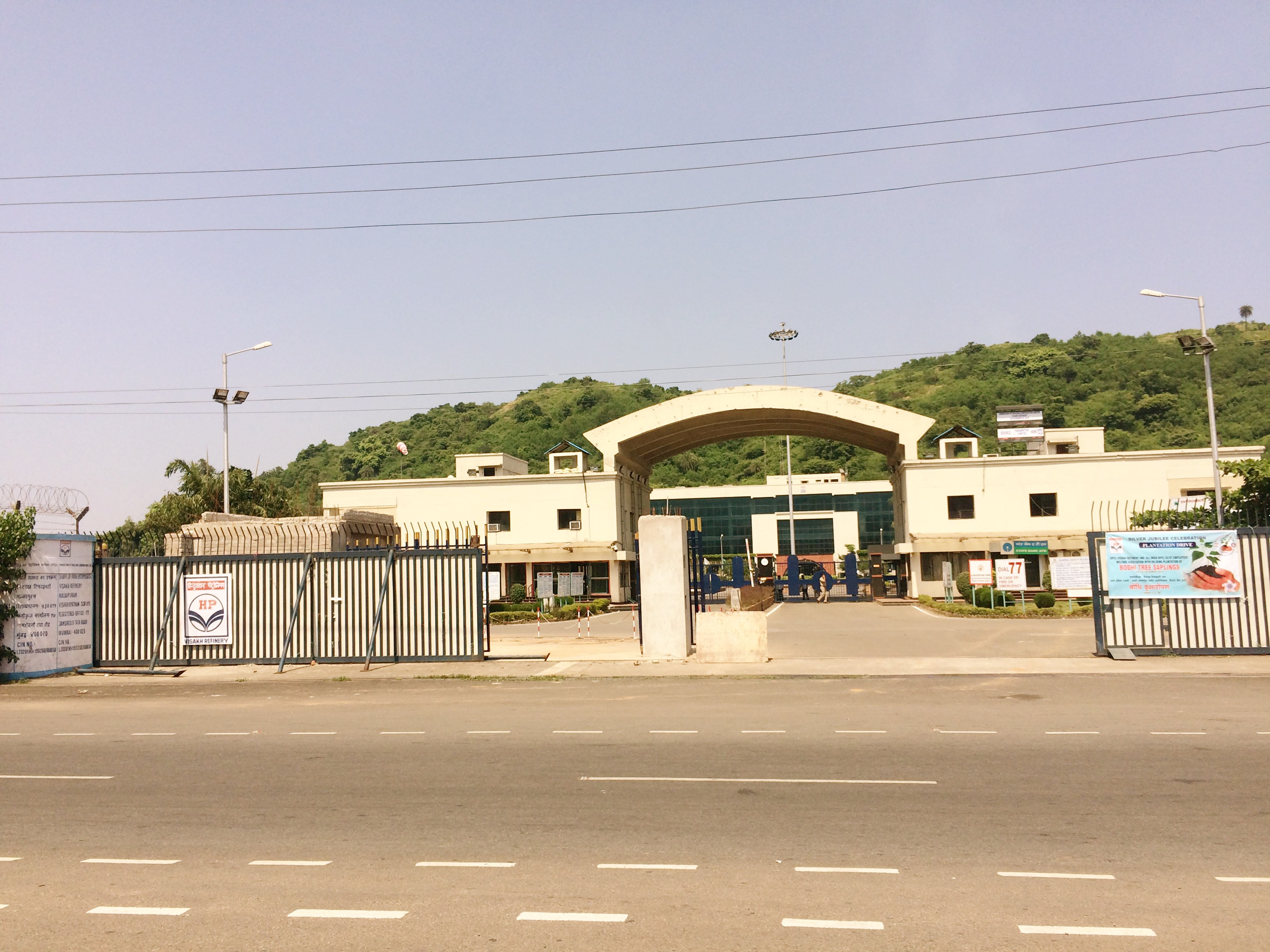 Visakhapatnam oil refinary